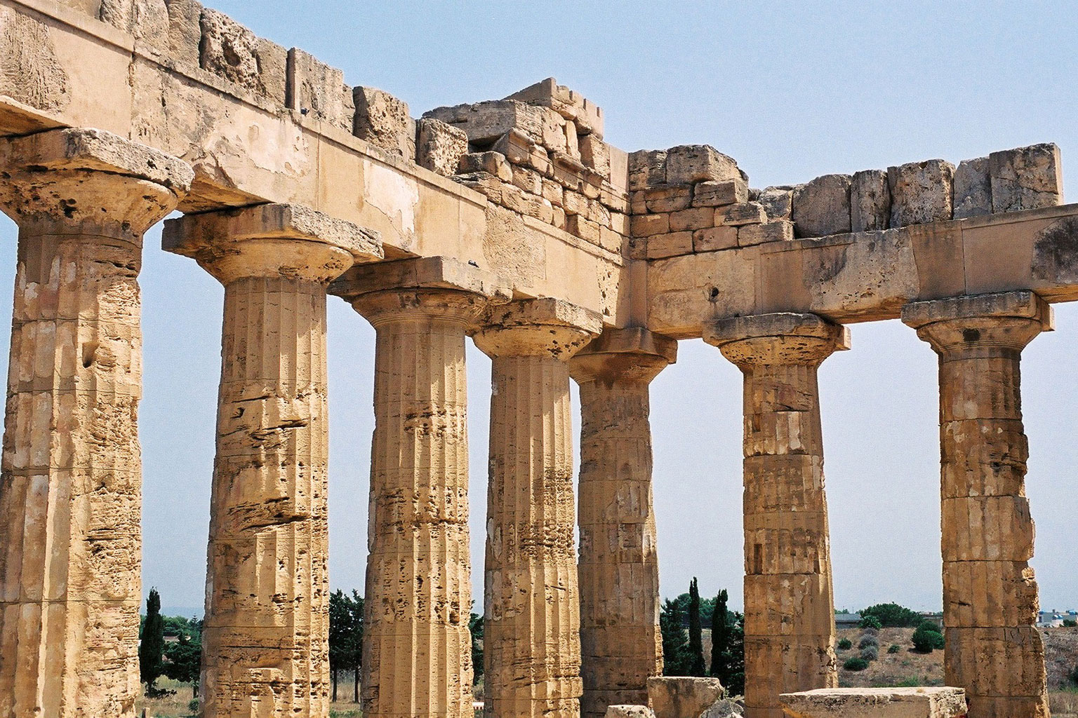 Selinunte (Sicily): Temple E